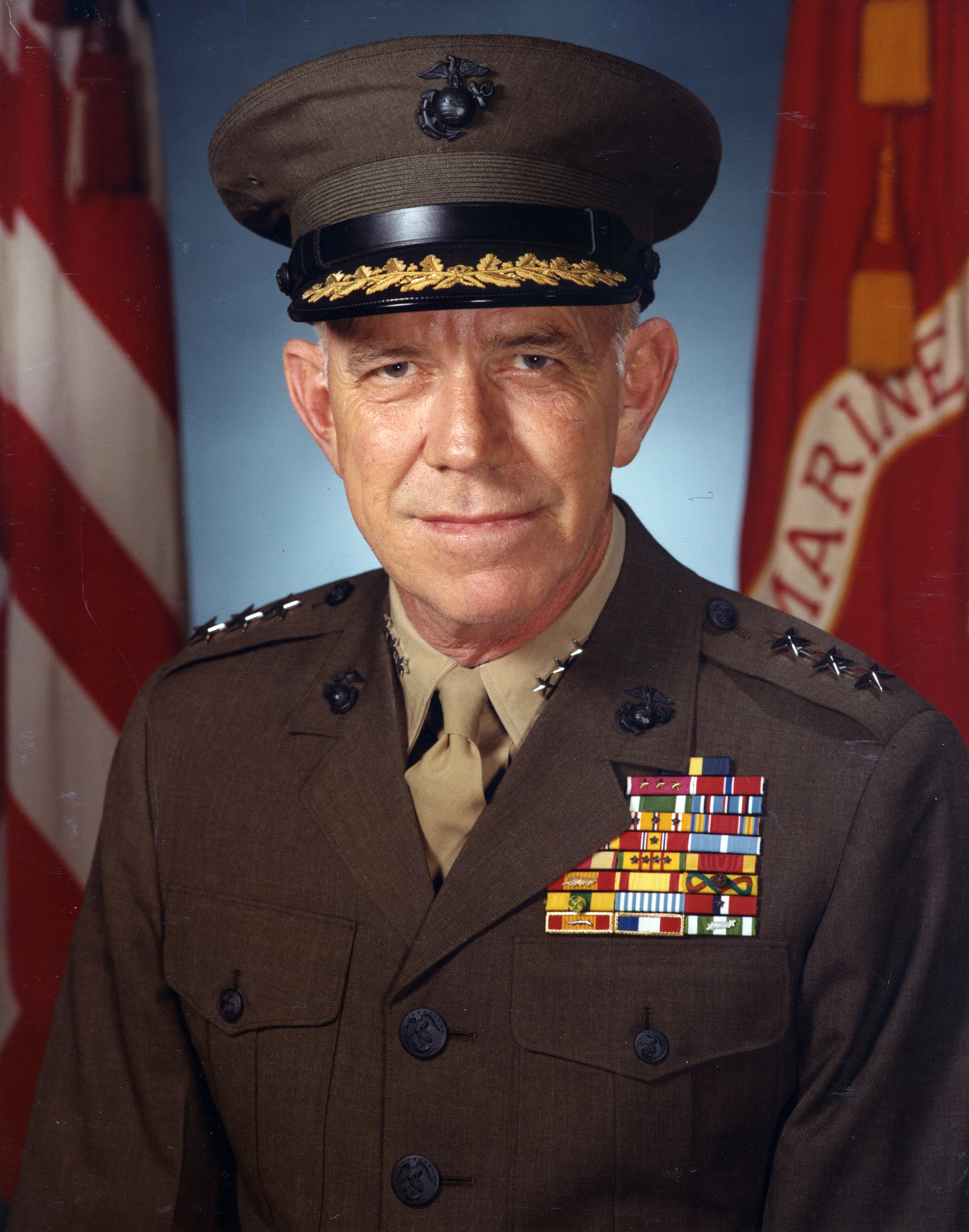 Ormond Ralph Simpson (March 16, 1915 - November 21, 1998) was a highly decorated officer of the United States Marine Corps with the rank of Lieutenant General, who held a number of important assignments throughout his career. He is most noted as commanding general of 1st Marine Division during Vietnam War and later as Director of Personnel and Deputy Chief of Staff for Manpower at Headquarters Marine Corps.